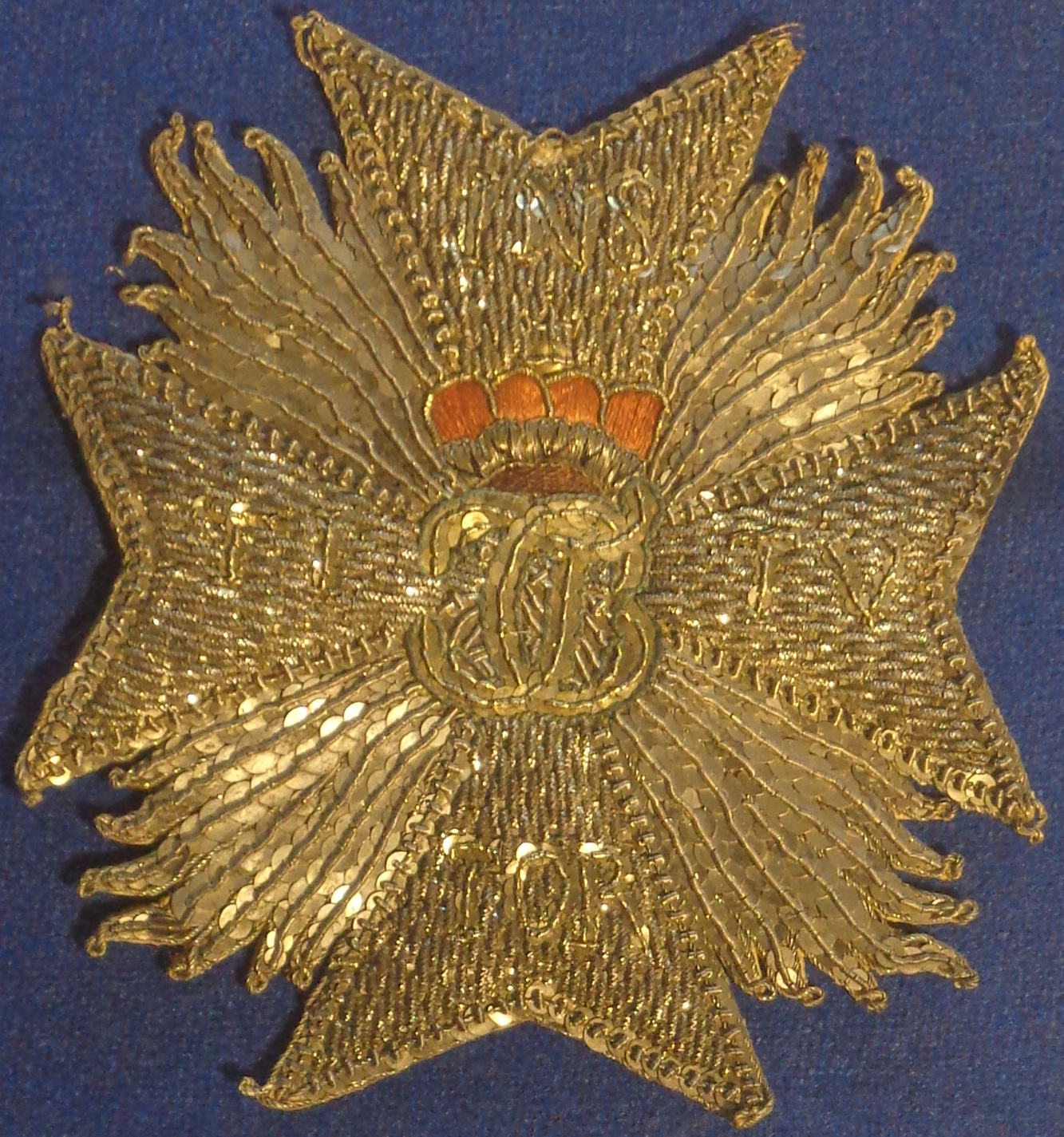 Order of the Palatine Lion, star, c.1770. Electorate of the Palatinate, Electorate of Bavaria. The exhibition of the Tallinn Museum of Orders of Knighthood, Estonia.